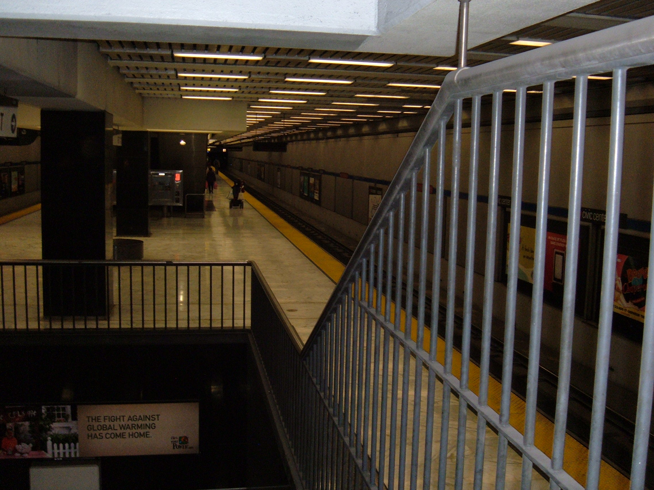 The Civic Center Station platform for Muni in San Francisco. The BART platform is below.